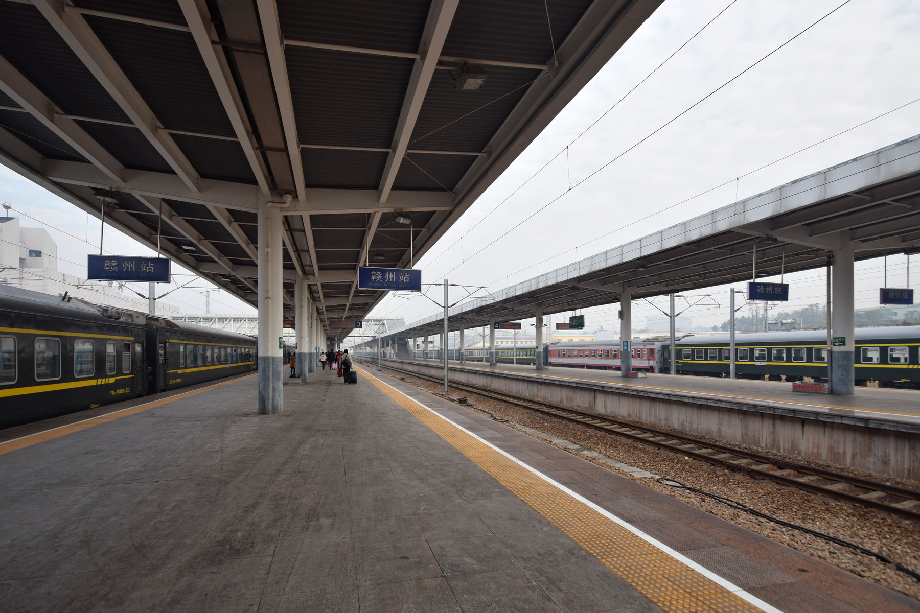 Platform 2-5 of Ganzhou Railway Station, view towards Ganzhou Dong (East) Railway Station.